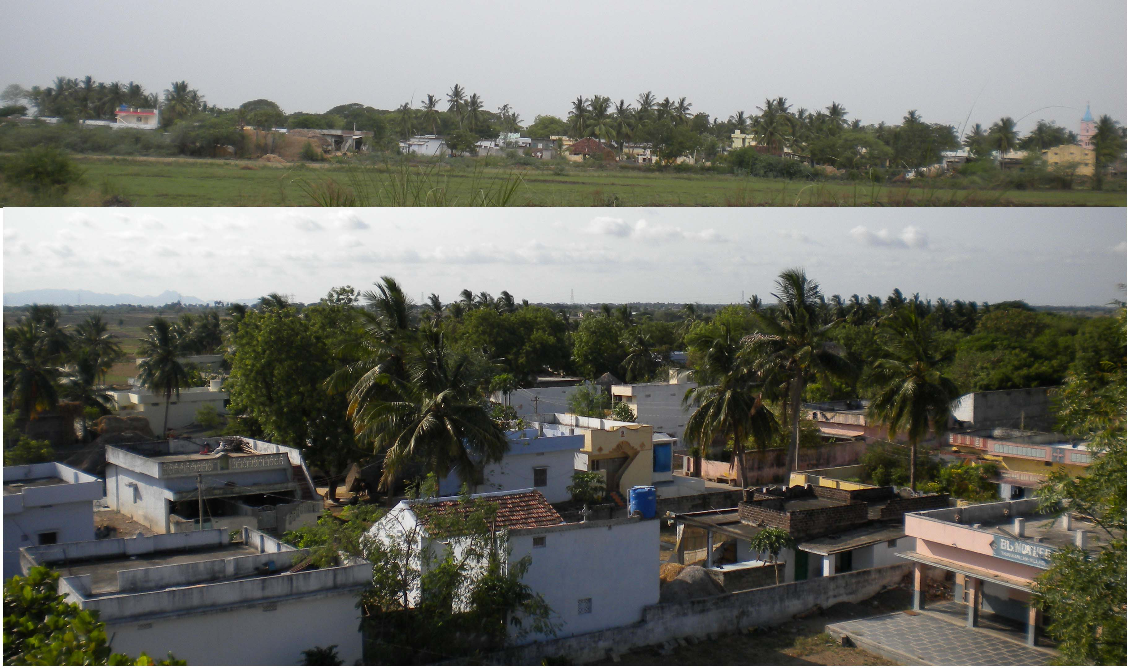 village scape